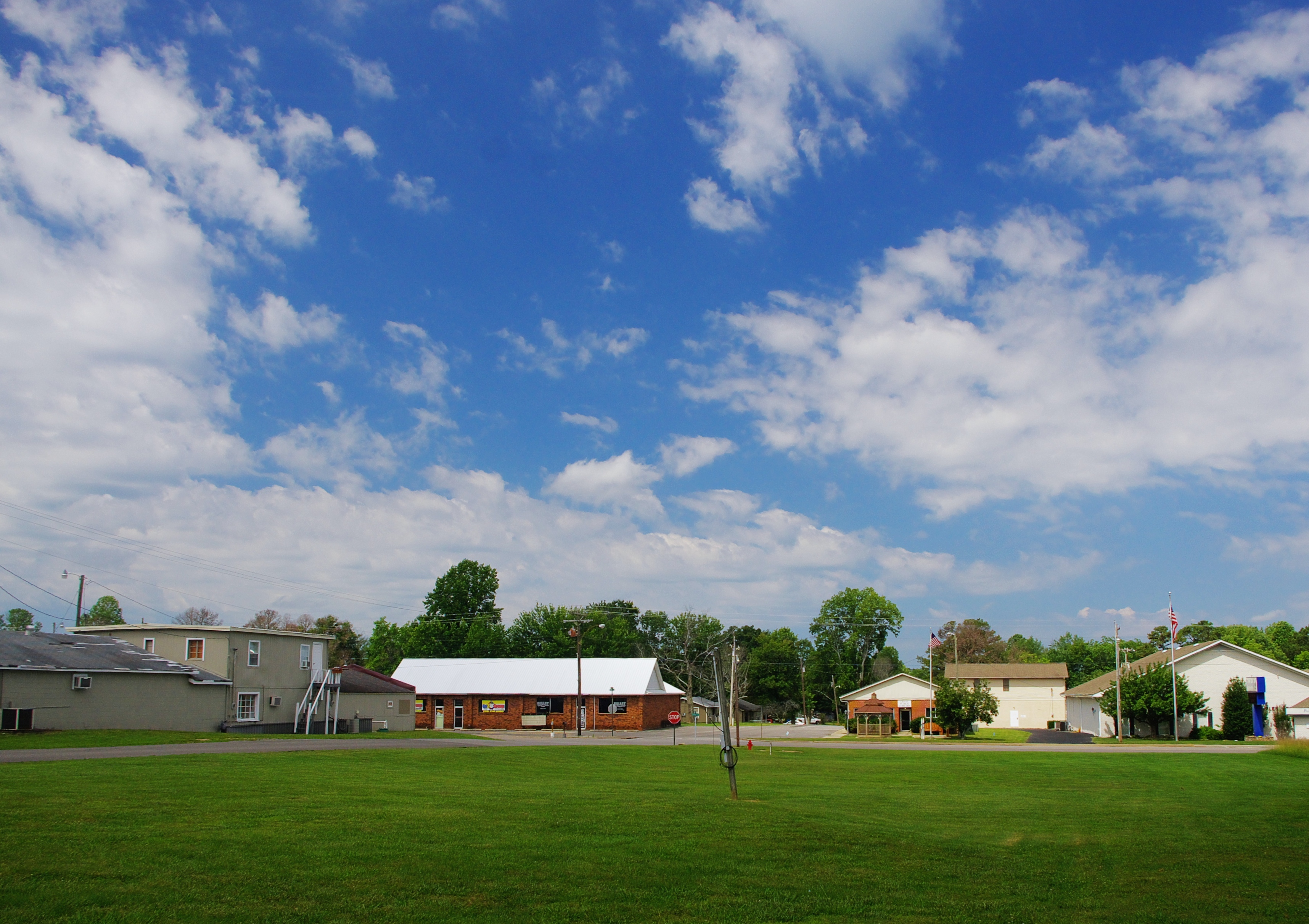 Buildings at the intersection of Main Street and 6th Street in Grant, Alabama, United States.